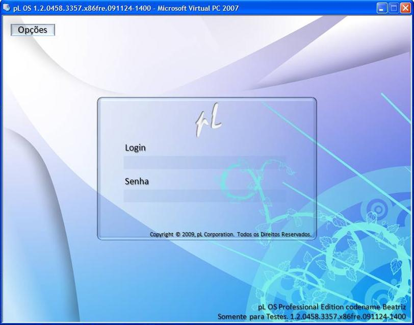 pL OS Professional Edition Login Screen on Virtual PC 2007